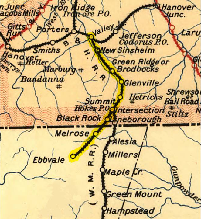 Map of Bachman Valley Railroad. Built in 1873, merged into the Baltimore and Harrisburg Railway in 1886 (as shown on this map from 1895). The B&H was acquired by Western Maryland Railway in 1917. Original map cropped and BV rail line highlighted.